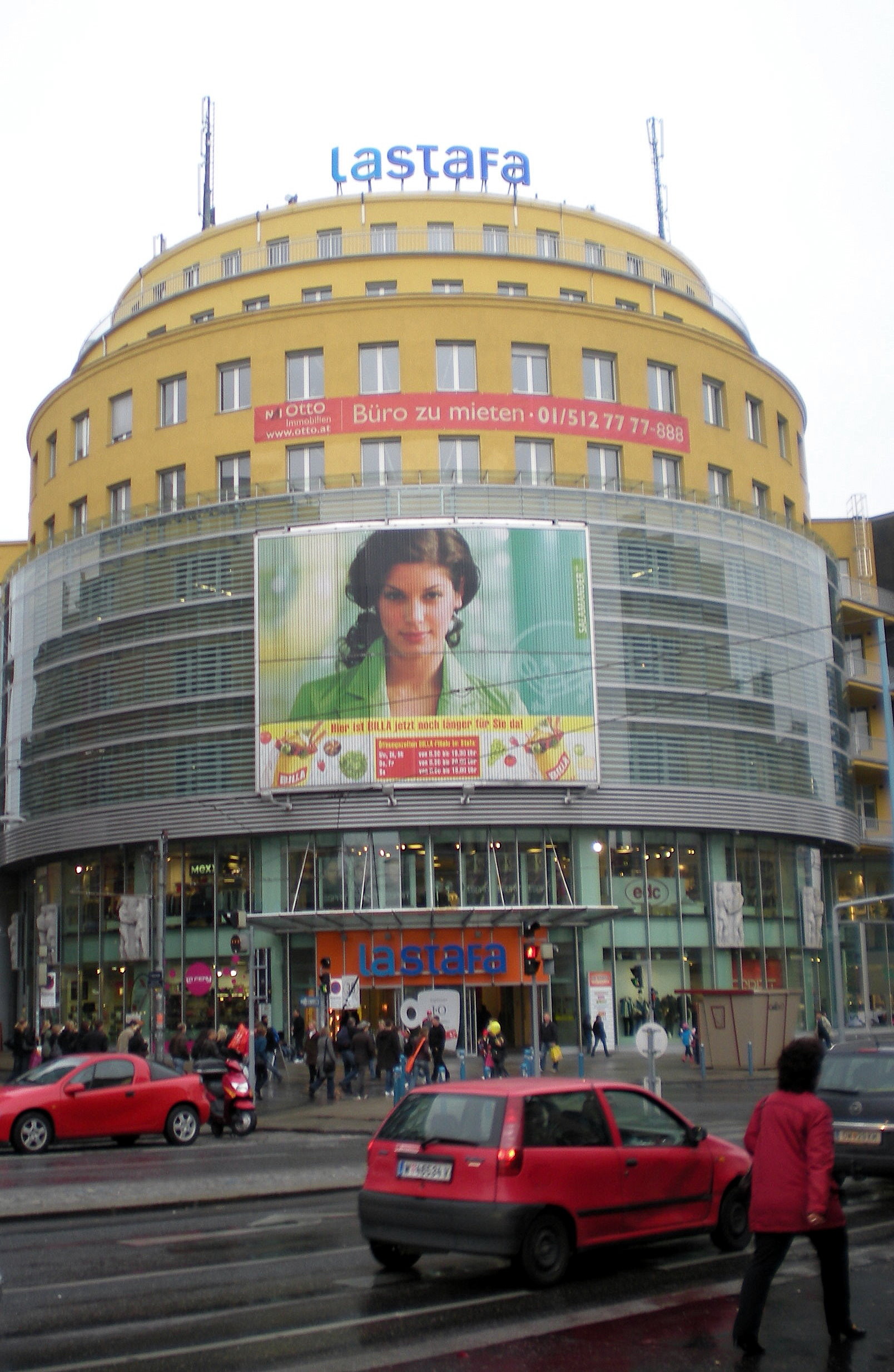 Stafa, formerly a department store, now a shopping mall at Mariahilfer Straße, Vienna's 7th district